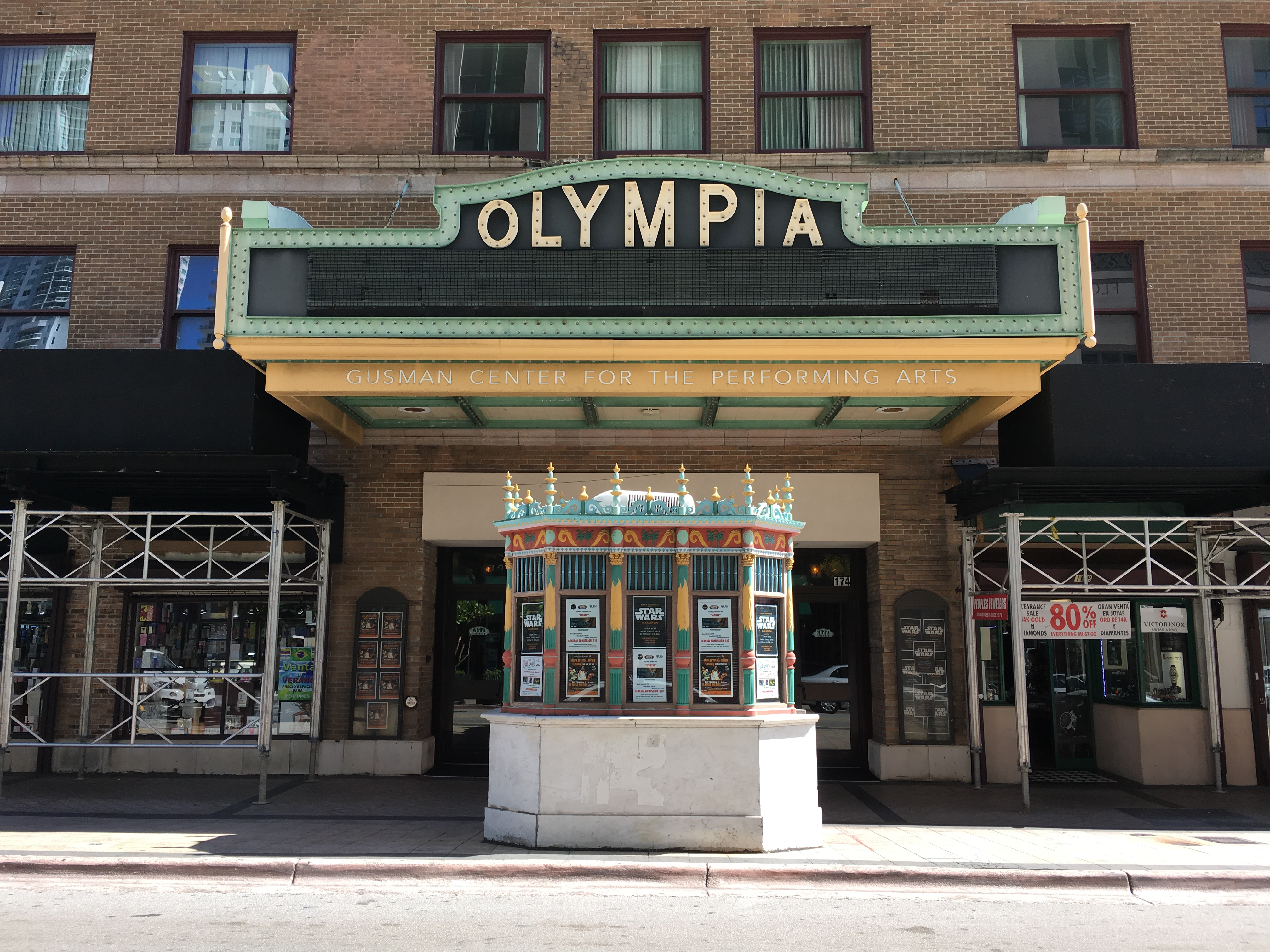 Olympia Theatre (Miami).